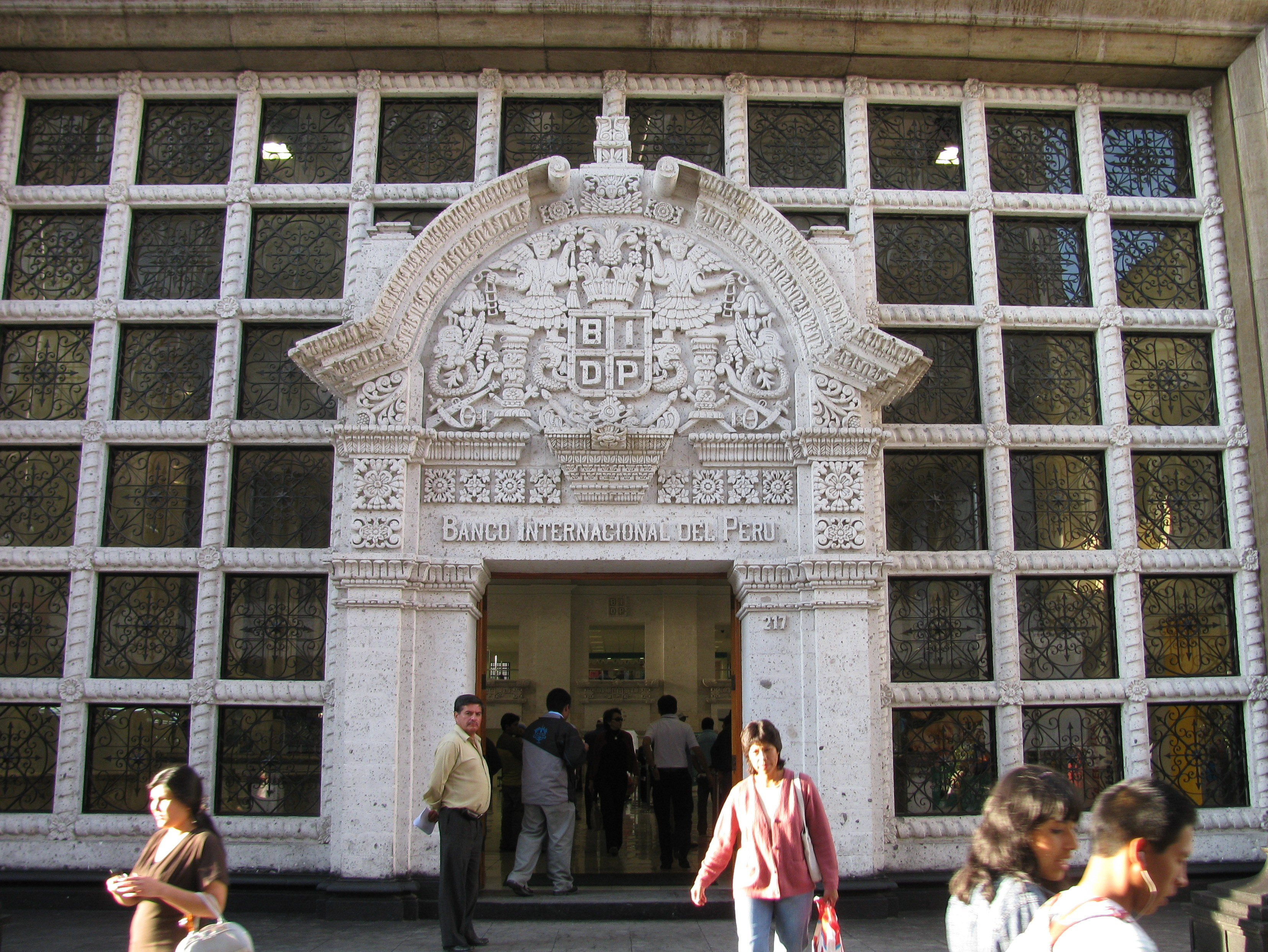 Facade of the Banco Internacional del Peru (now Interbank) in Arequipa, Peru